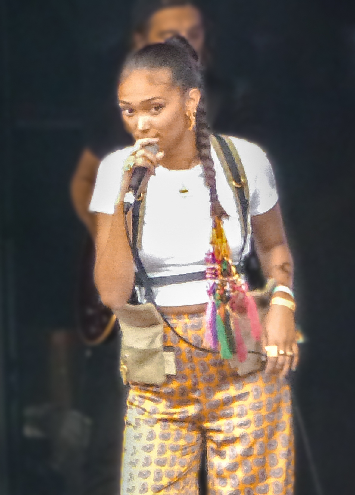 Joy Crookes performing at Wilderness Festival in UK, 2018